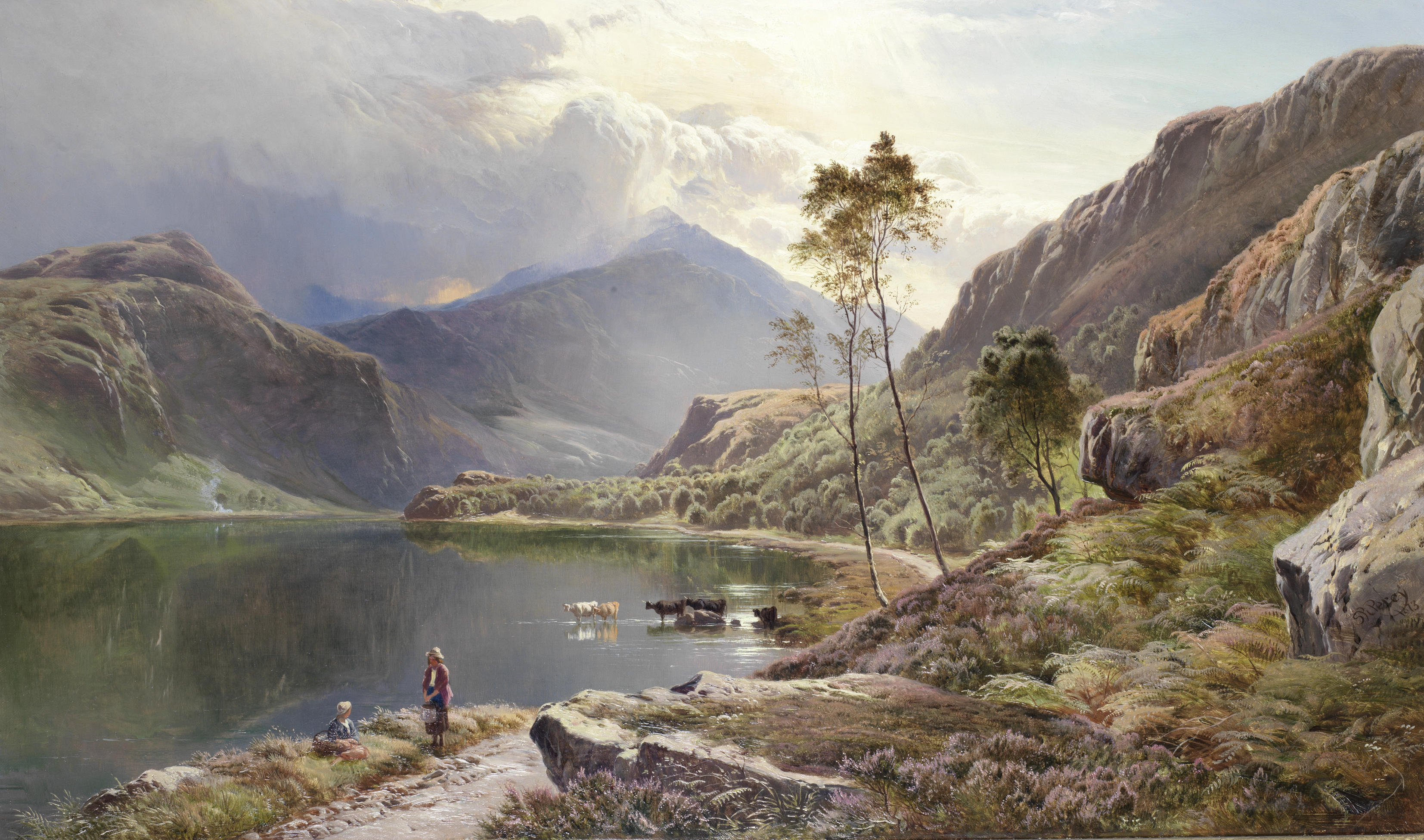 Llyn-y-Ddinas, North Wales; signed and dated 'S R Percy/1873' (lower right); inscribed with title in pencil on the reverse; oil on canvas; 45.5 x 76 cm